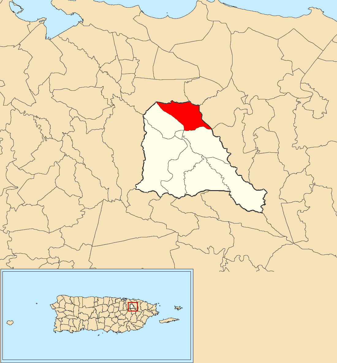 St Just, Trujillo Alto, Puerto Rico locator map